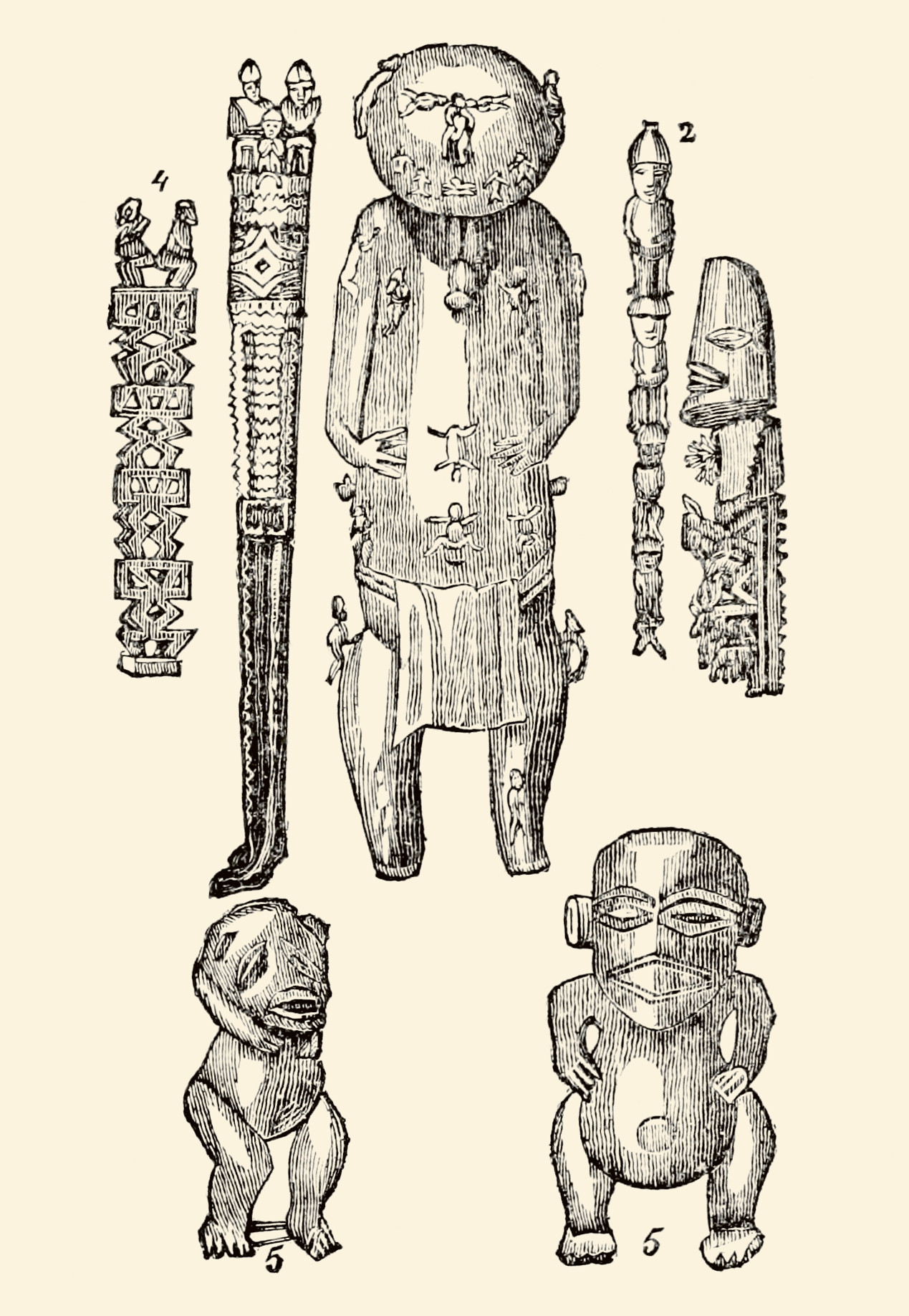 Wooden idols of Polynesia. The figure in the centre, No. 1. exhibits a correct front view of Taaroa, the supreme deity of Polynesia; who is generally regarded as the creator of the world, and the parent of gods and men. The image from which this was taken, is nearly four feet high, and twelve or fifteen inches broad, carved out of a solid piece of close, white, durable wood. In addition to the number of images or demigods forming the features of his face, and studding the outside of his body, and which were designed to shew the multitudes of gods that had proceeded from him; his body is hollow, and when taken from the temple at Rurutu, in which for many generations he had been worshipped, a number of small idols were found in the cavity. They had perhaps been deposited there, to imbibe his supernatural powers, prior to their being removed to a distance, to receive, as his representatives, divine honours. The opening to the cavity was at the back; the whole of which, might be removed. No. 2. is Terongo, one of the principal gods, and his three sons. No. 3. is an image of Tebuakina, three sons of Rongo, a principal deity in the Hervey Islands. The name is probably analogous to Orono in Hawaii, though distinct from Oro in Tahiti. No. 4. exhibits a sacred ornament of a canoe from the island of Huahine. The two figures at the top, are images worshipped by fishermen, or those frequenting the sea. The two small idols at the lower corners of the plate, No. 5. are images of oramatuas, or demons. The gods of Rarotogna were some of them much larger; Mr. Bourne, in 1825, saw fourteen about twenty feet long, and six feet wide.